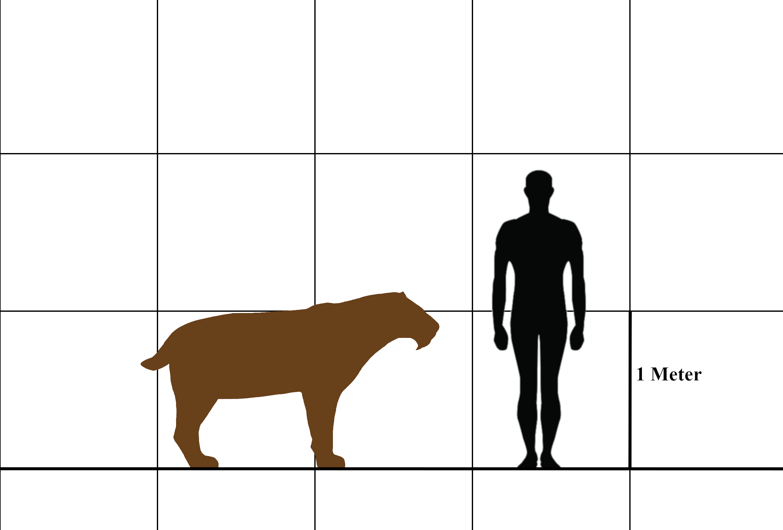 S. fatalis compared to a human of average size (1,80 cm tall)